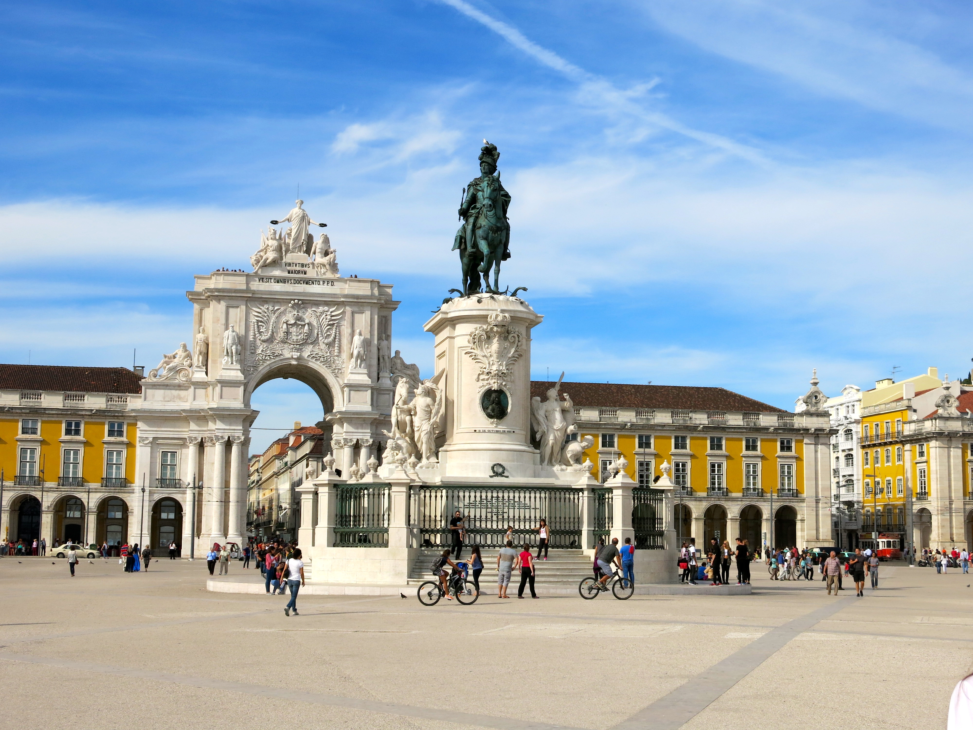 A road trip adventure through Portugal! More at